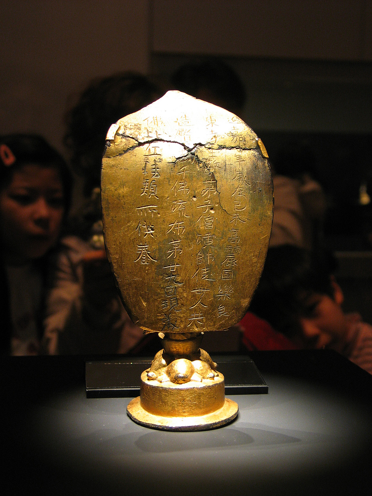 One of South Korea's national treasures and one of the earliest extant sculptures from the country. Yŏn'ga Buddha, Goguryeo, 539. Gilt bronze, h. 16.3 cm. National Museum of Korea, National Treasure no. 119. "In the seventh year of Yŏn'ga, kimi (539), the respectful disciple Monk Sungyon, abbot of the Eastern Temple in Nangnang of Koguryo, together with forty other masters and pupils made [images of] the Thousand Buddhas of the Bhadrakalpa and disseminated them to the world. Monk Pobyong makes offerings to this ninth Buddha of Inducing Truth to become Manifest." Handbook of Korean Art: Buddhist Sculpture. By Youngsook Pak and Roderick Whitfield. Seoul, South Korea 2002. Pg. 48.